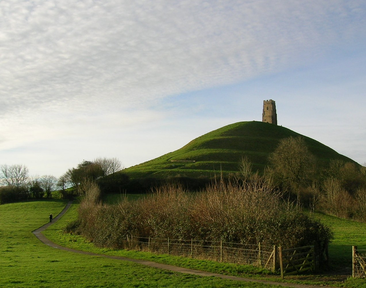 Glastonbury Tor, early morning